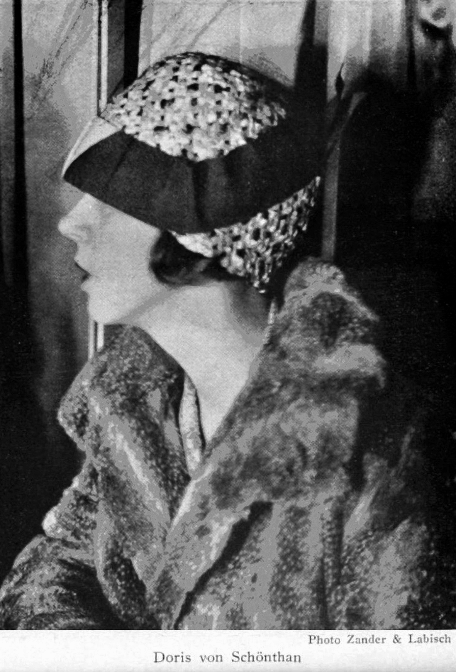 The German hat model, ad writer, journalist and photographer Doris von Schönthan (1905–1961) who became well-known during the Roaring Twenties in the Weimar Republic as pictured by Zander & Labisch and published in the culture periodical Querschnitt No. 5 in 1927. During the Nazi regime she emigrated to France where she married the German political activist Bruno von Salomon (1900–1952). Both were active in French Résistance.